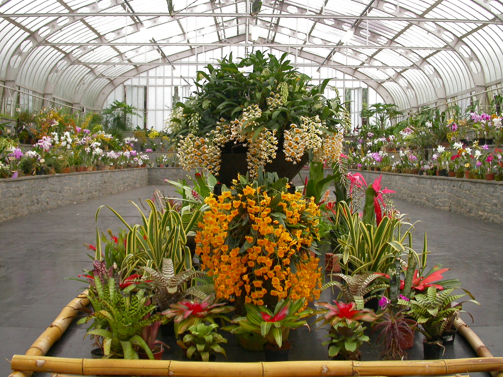 Orchid Show in The Botanic Garden of São Paulo, Brazil, November of 2003.